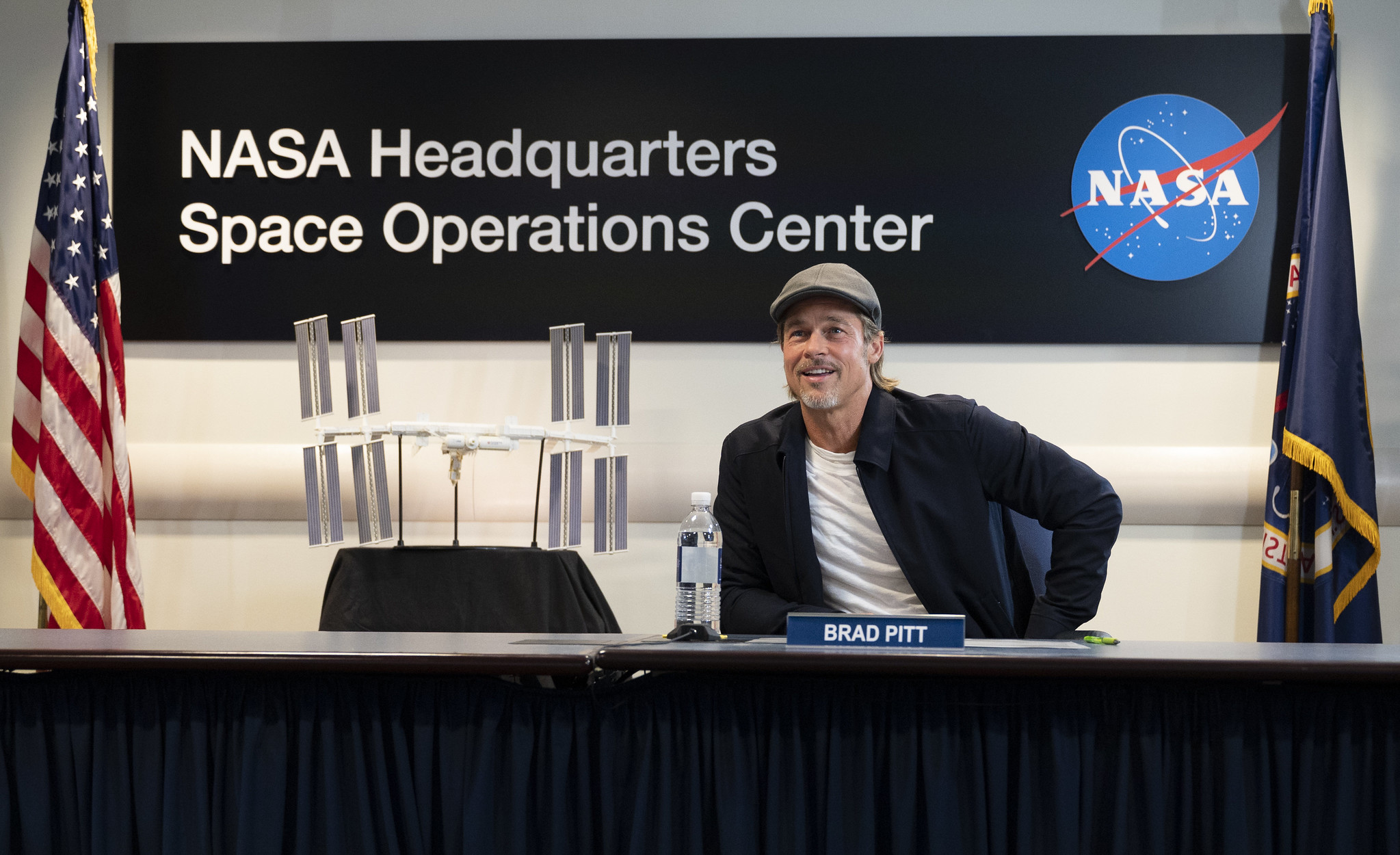 Actor Brad Pitt spoke with NASA astronaut Nick Hague, currently aboard the International Space Station, Monday, Sept. 16, 2019 from the Space Operations Center at NASA Headquarters in Washington. Pitt, who stars as an astronaut in his latest film Ad Astra, spoke with Hague about what it’s like to live and work aboard the orbiting laboratory.